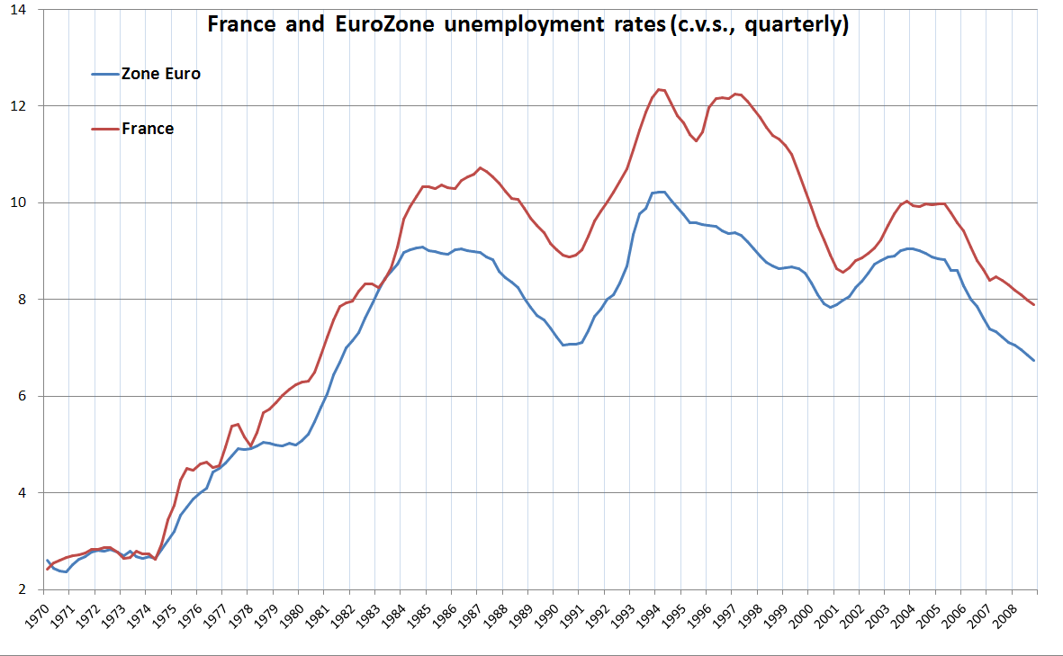 Unemployment rate in France and in Euro Zone, cvs, quarterly data